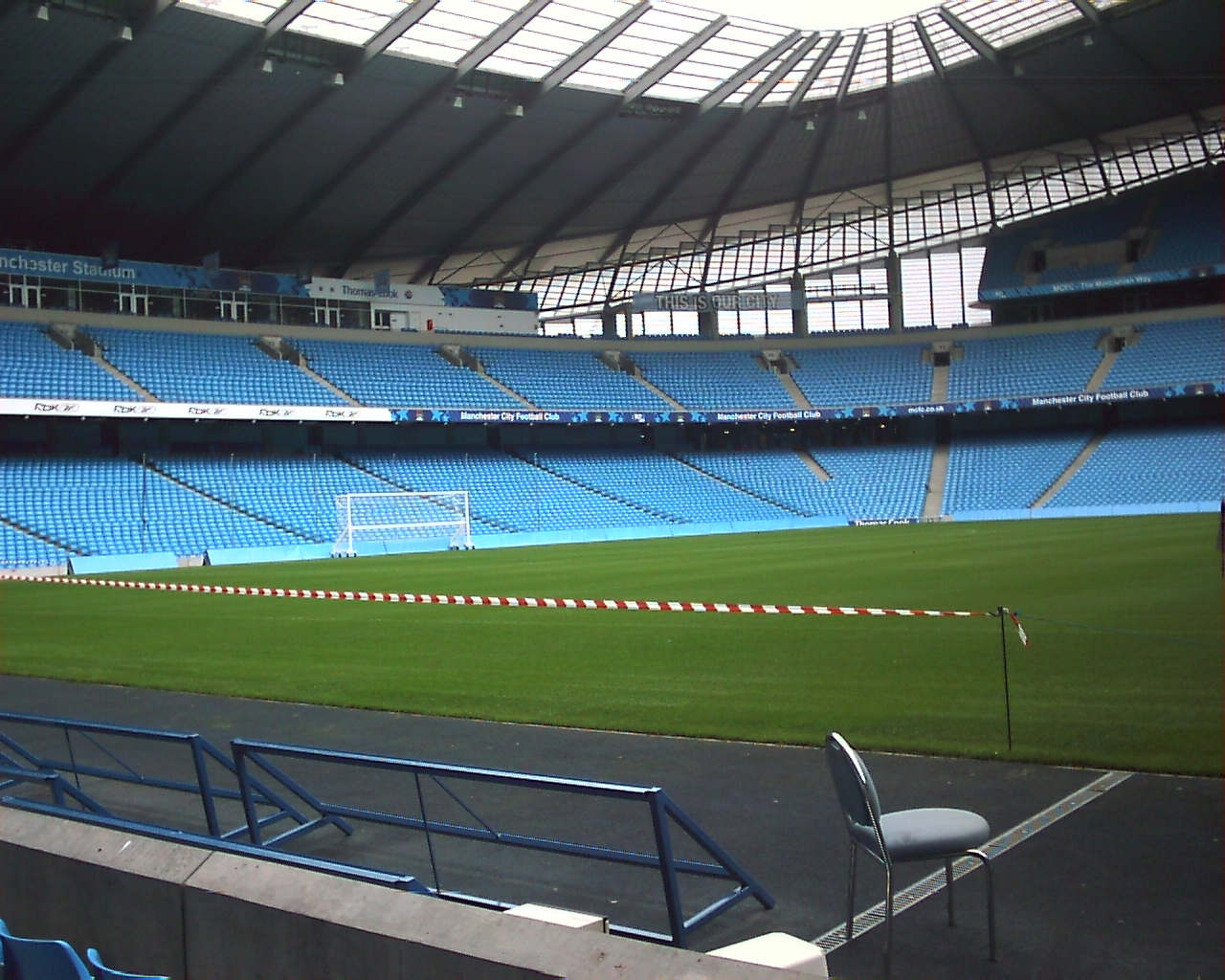 View of the North Stand at the City of Manchester Stadium taken from the home dugout